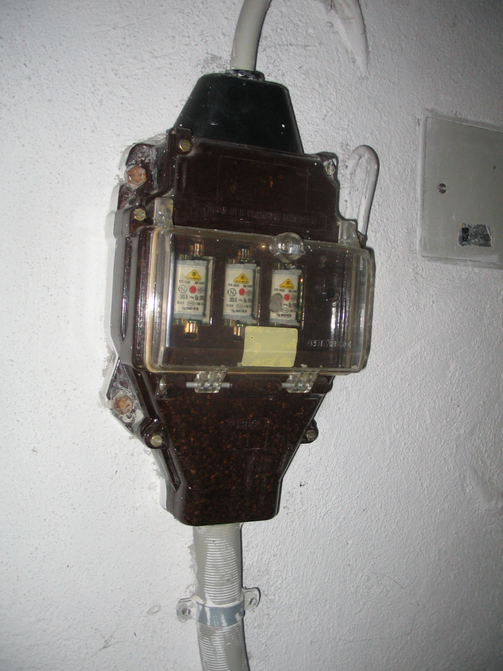 An electric main fuse box with 36 A rated knife fuses in Germany